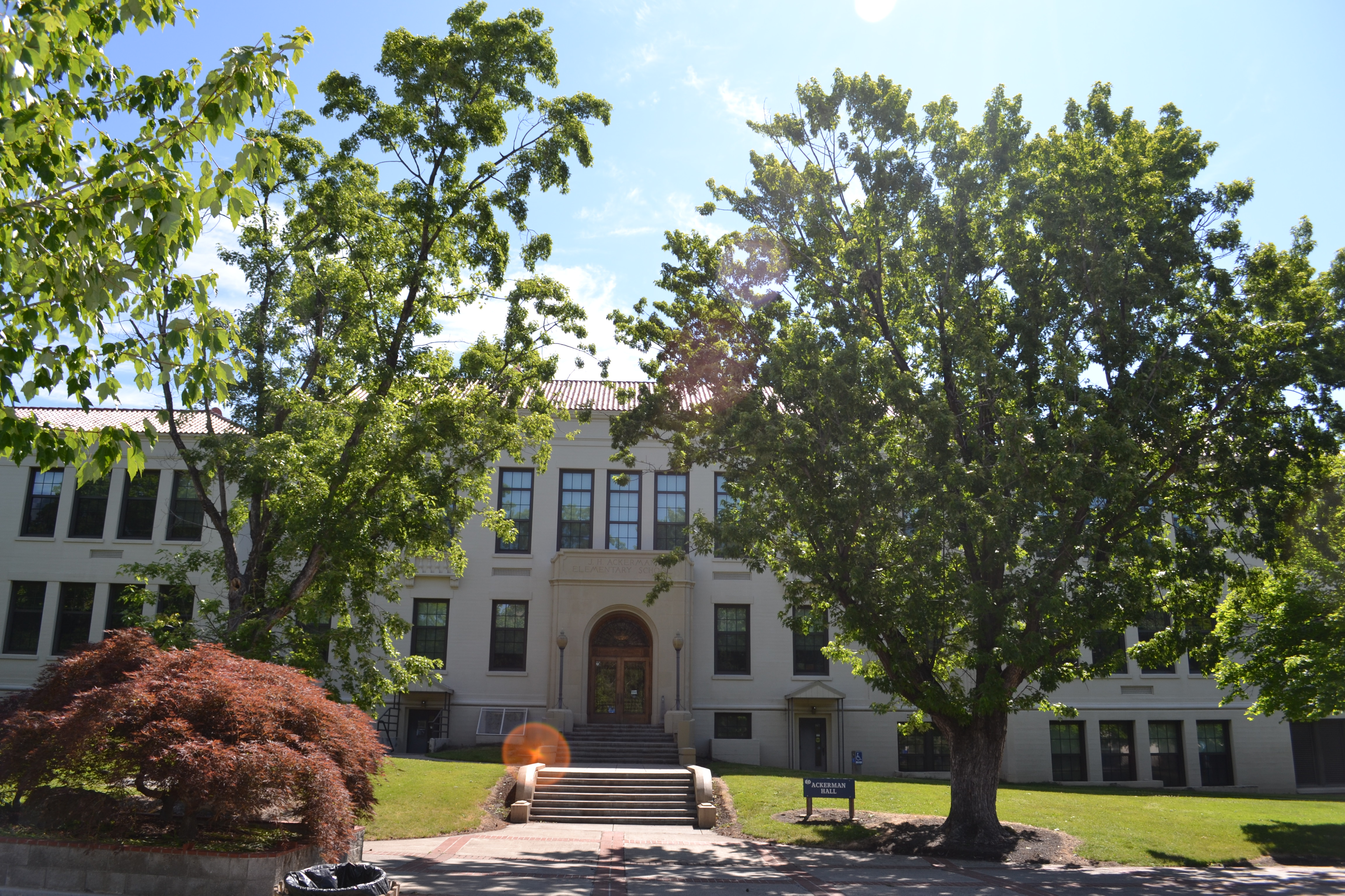 Ackerman Hall, Eastern Oregon University, La Grande, Oregon